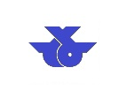 Flag of Toyoyama Aichi